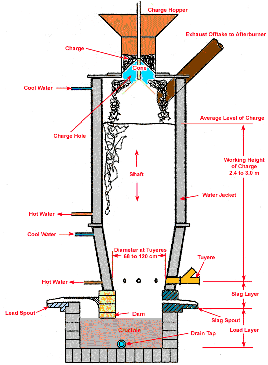 Cross-section of a blast furnace used for smelting lead.